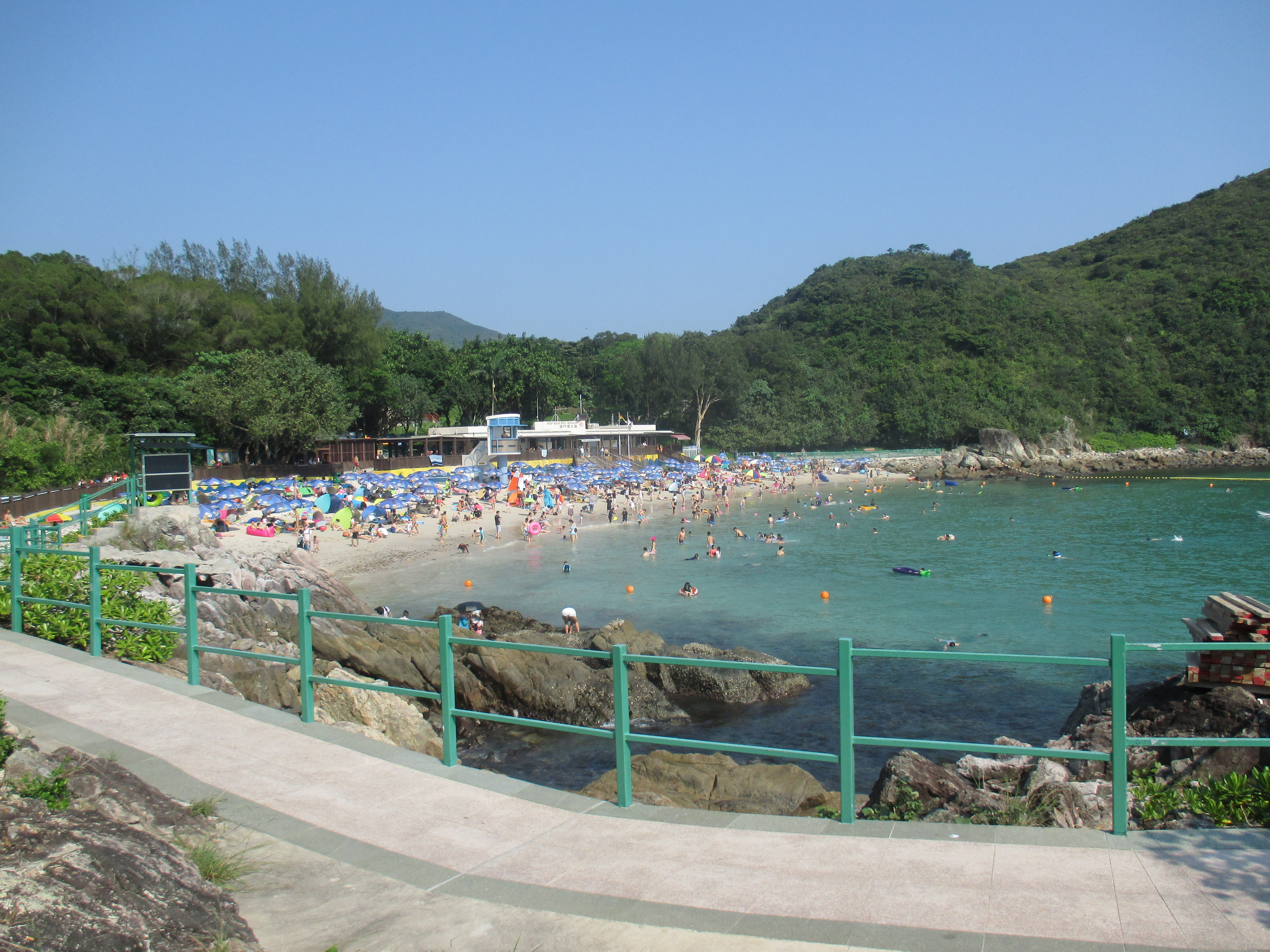 Hap Mun Bay, Sharp Island, Sai Kung District, Hong Kong